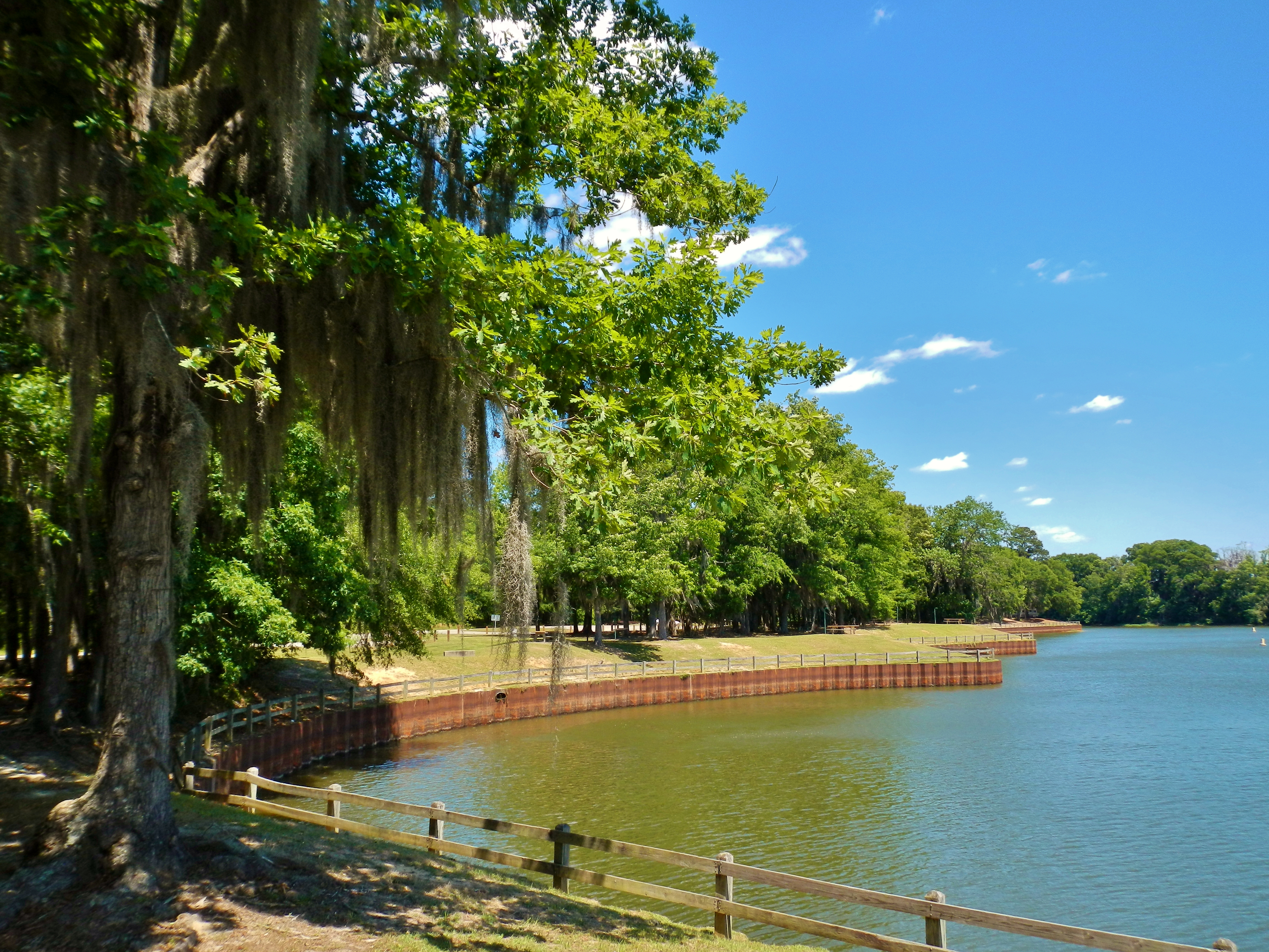 This is a photo of the Rood Creek Landing Recreation Area in Omaha, Georgia. It is the site of the Roods Landing Site or Roods Creek Mounds (9SW1), an archaeological site located south of Omaha, Stewart County, Georgia, United States at the confluence of Rood Creek and the Chattahoochee River. It is a Middle Woodland / Mississippian period Pre-Columbian complex of earthen mounds. It was entered on the National Register of Historic Places on August 19, 1975.